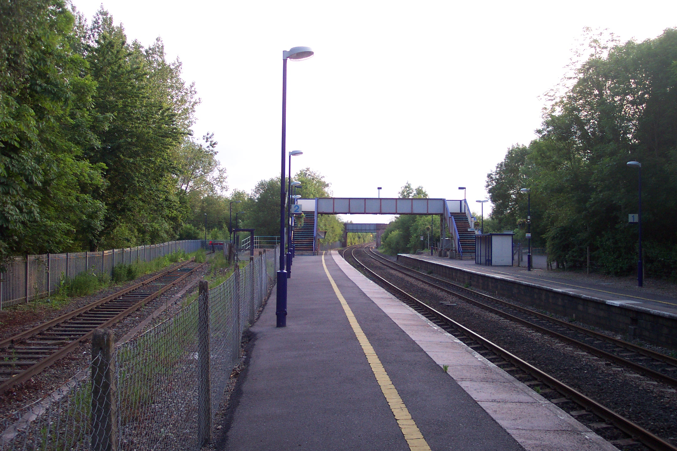 Aldermaston railway station, looking to the west. For more information see the Wikipedia article Aldermaston railway station.